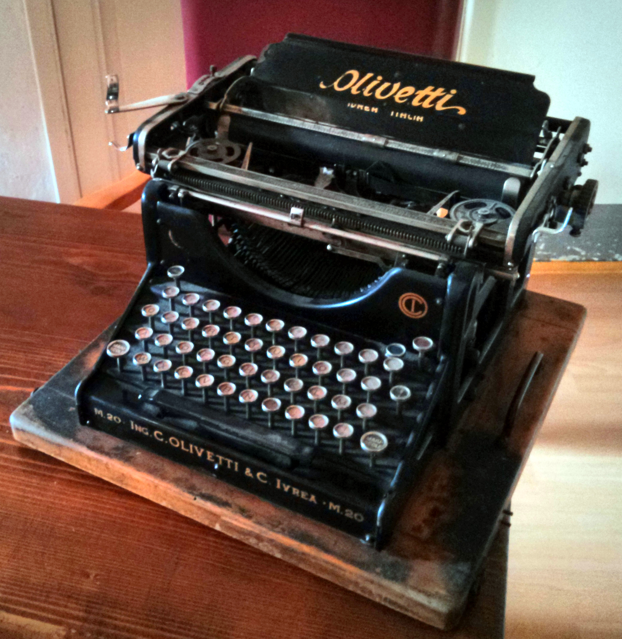 Olivetti Typewriter M20